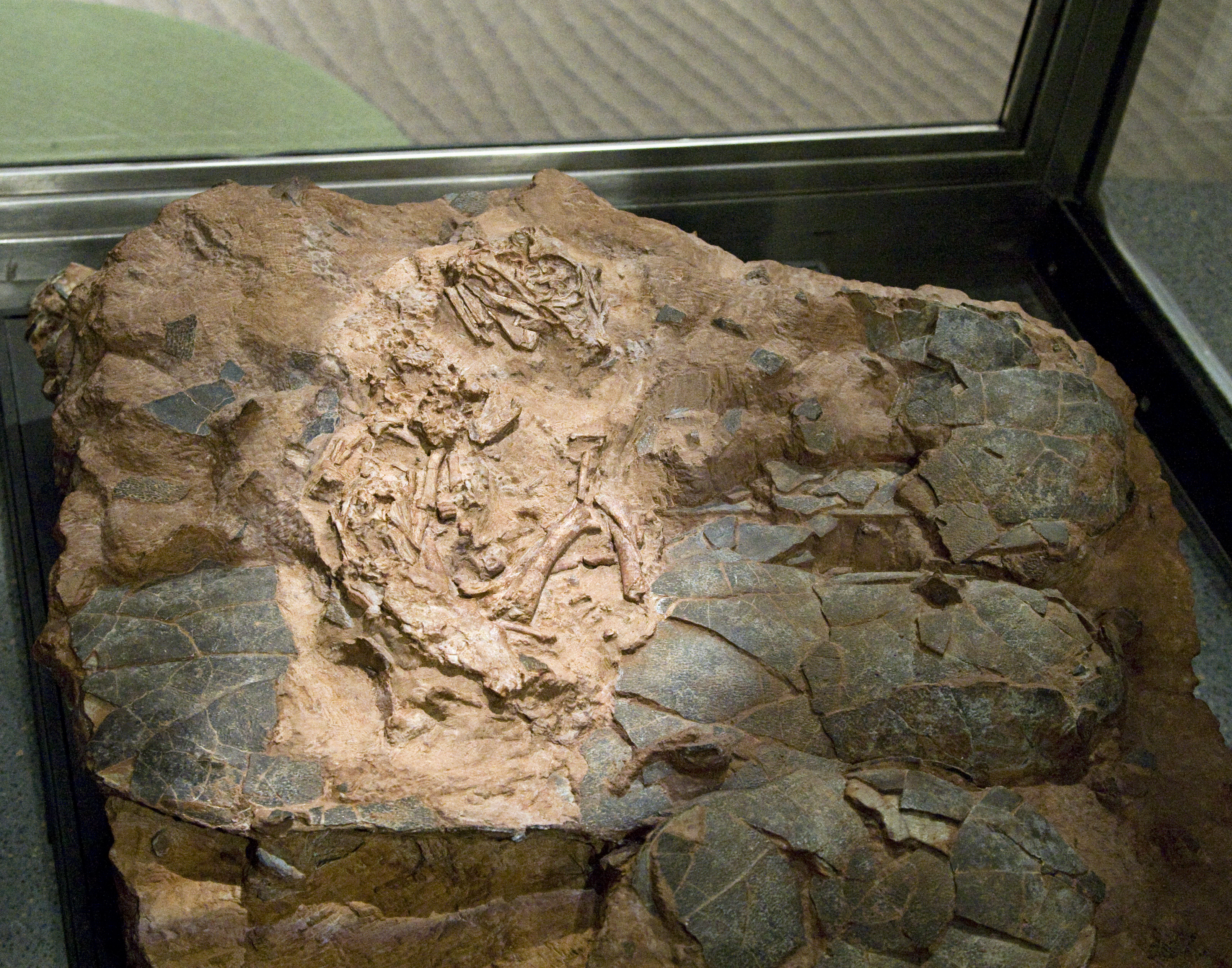 Baby Louie - a Beibeilong fetus in the Children's Museum of Indianapolis